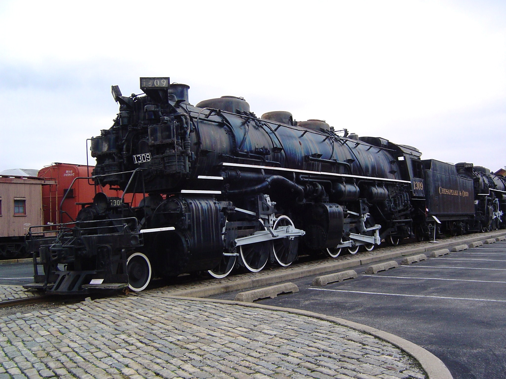 Former Chesapeake & Ohio, 2-6-6-2 Mallet steam locomotive #1309, seen at the B&O Museum, Baltimore, Maryland, on 29th October 2009